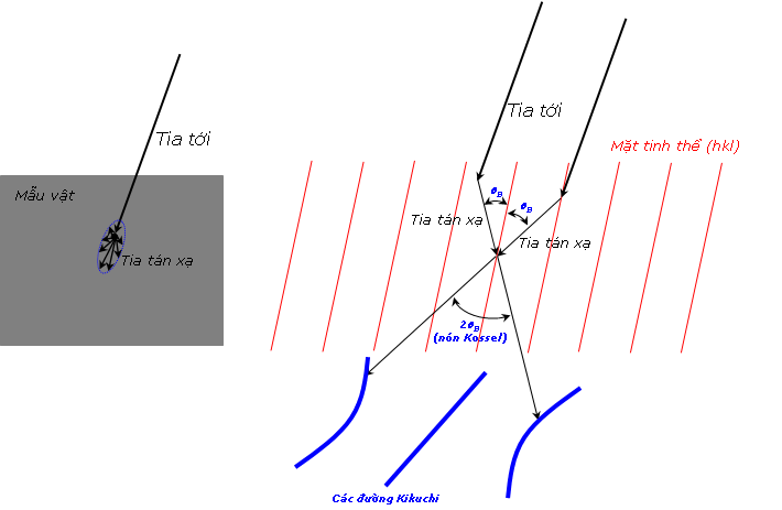 Kikuchi line formation